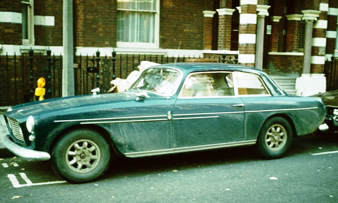 Bristol 411 in London (NOTE: THIS IS INCORRECT. This is a photo of a Bristol 408. Headlight mounting is different (flat on a 408) and trim treatment is different [more side chrome on the 408]) For accurate photos and descriptions and